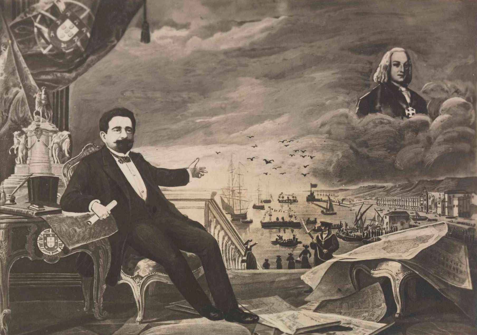 Postcard with a satirical illustration related to Afonso Costa's anti-clerical policies (title: "The expulsion of the Jesuits on 10 October 1910"). The posture of Afonso Costa and the composition are reminiscent of the 18th-century painting by Louis-Michel van Loo depicting the Marquis of Pombal - drawing a parallel between the two individuals.